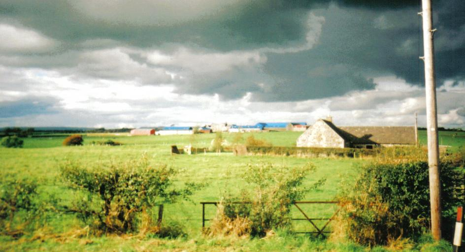 Ramstane and Barnahill farm in the background, North Ayrshire